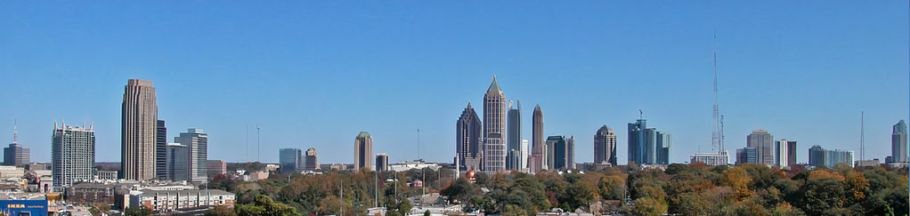 Midtown Atlanta viewed from the Northwest.